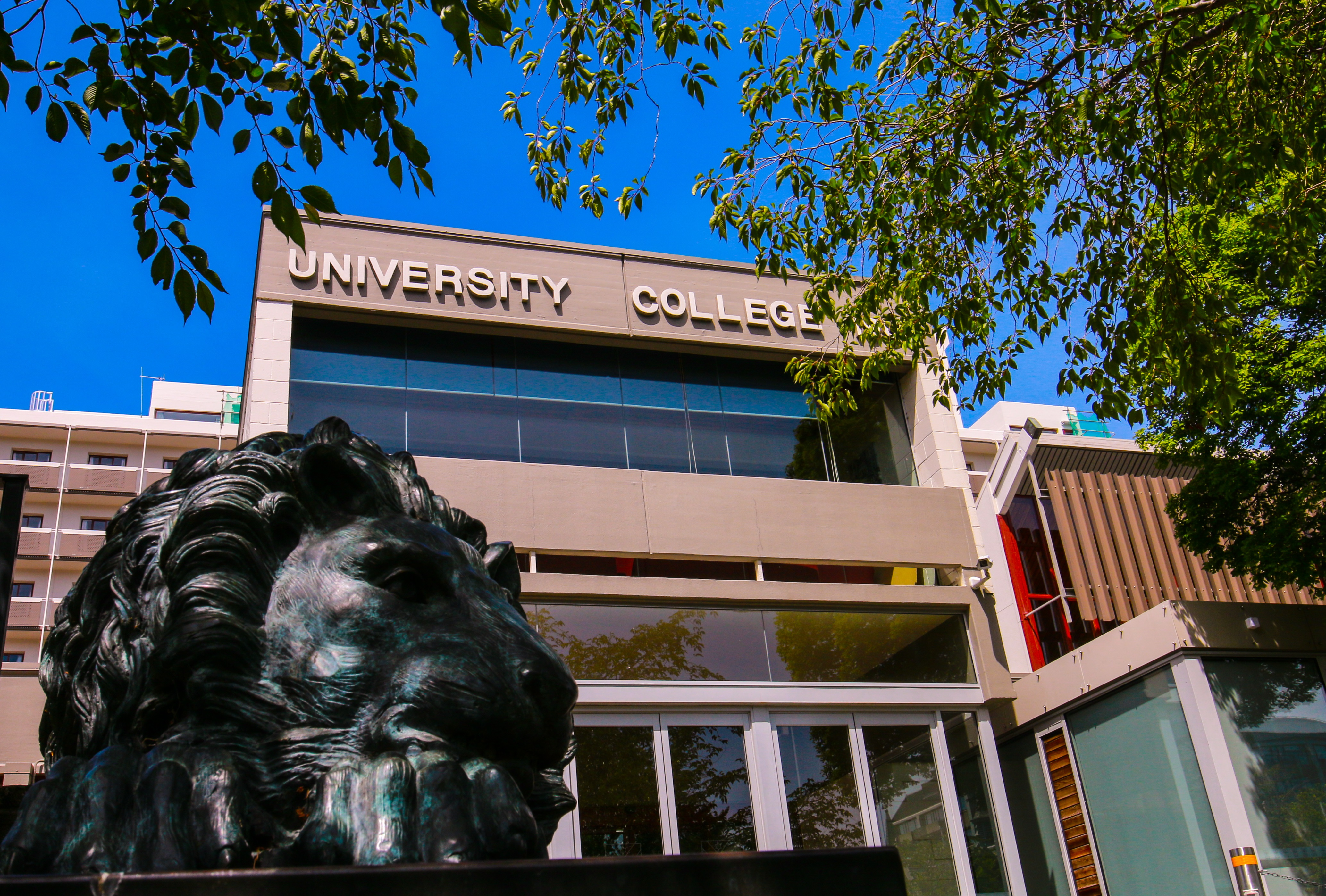 Front view of University College with Brass Lions in the foreground.